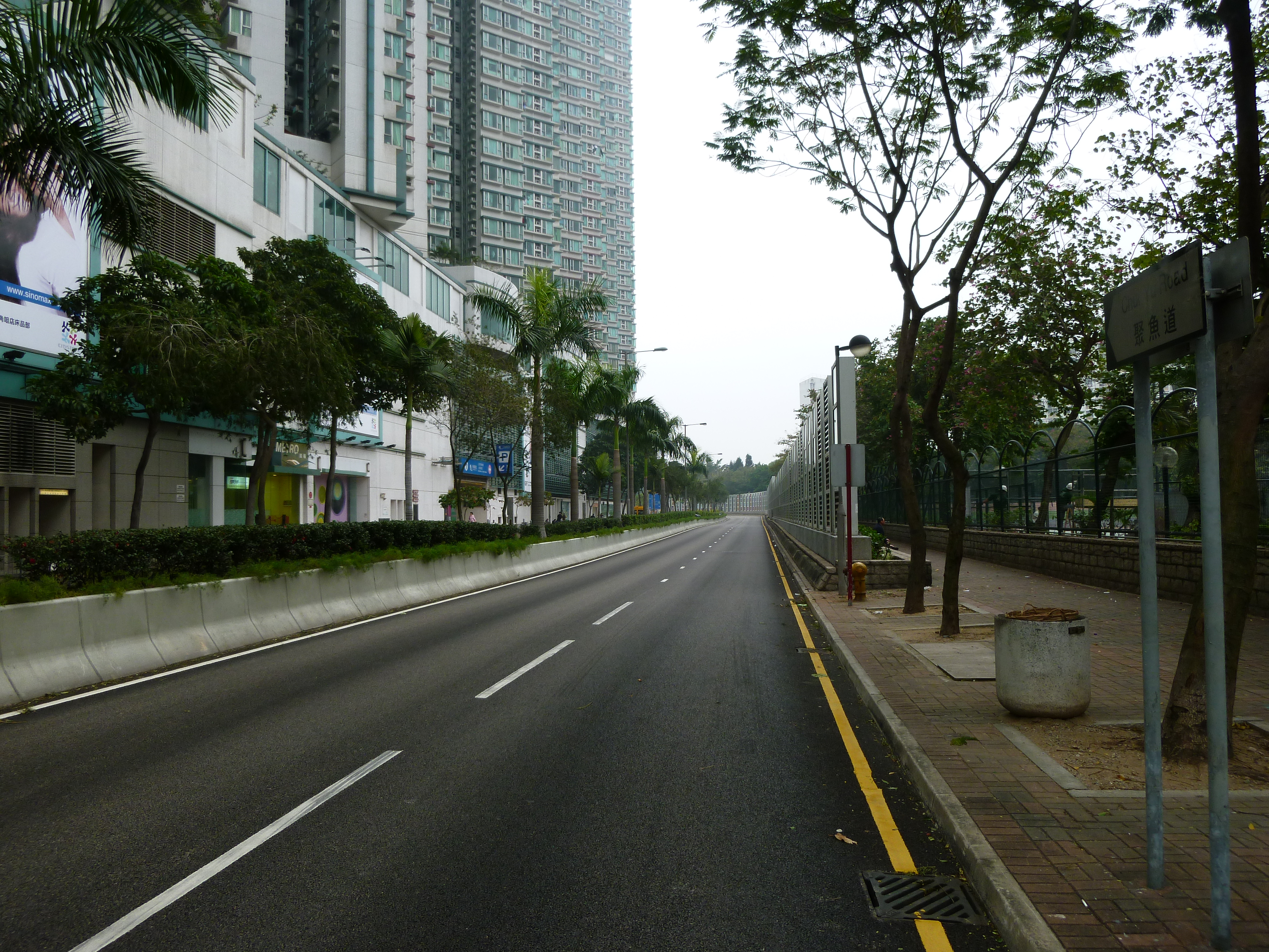 Chui Yu Road (Kowloon, Hong Kong)